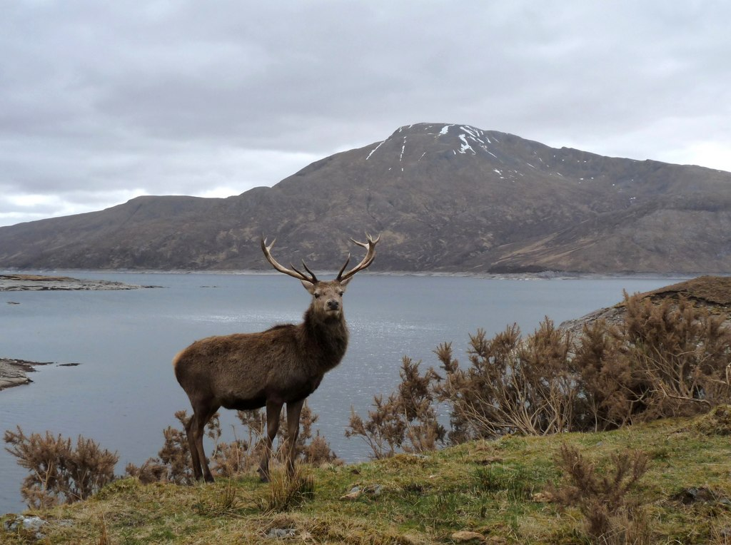 Stag at Loch Quoich Gairich rises obove the opposite shore.